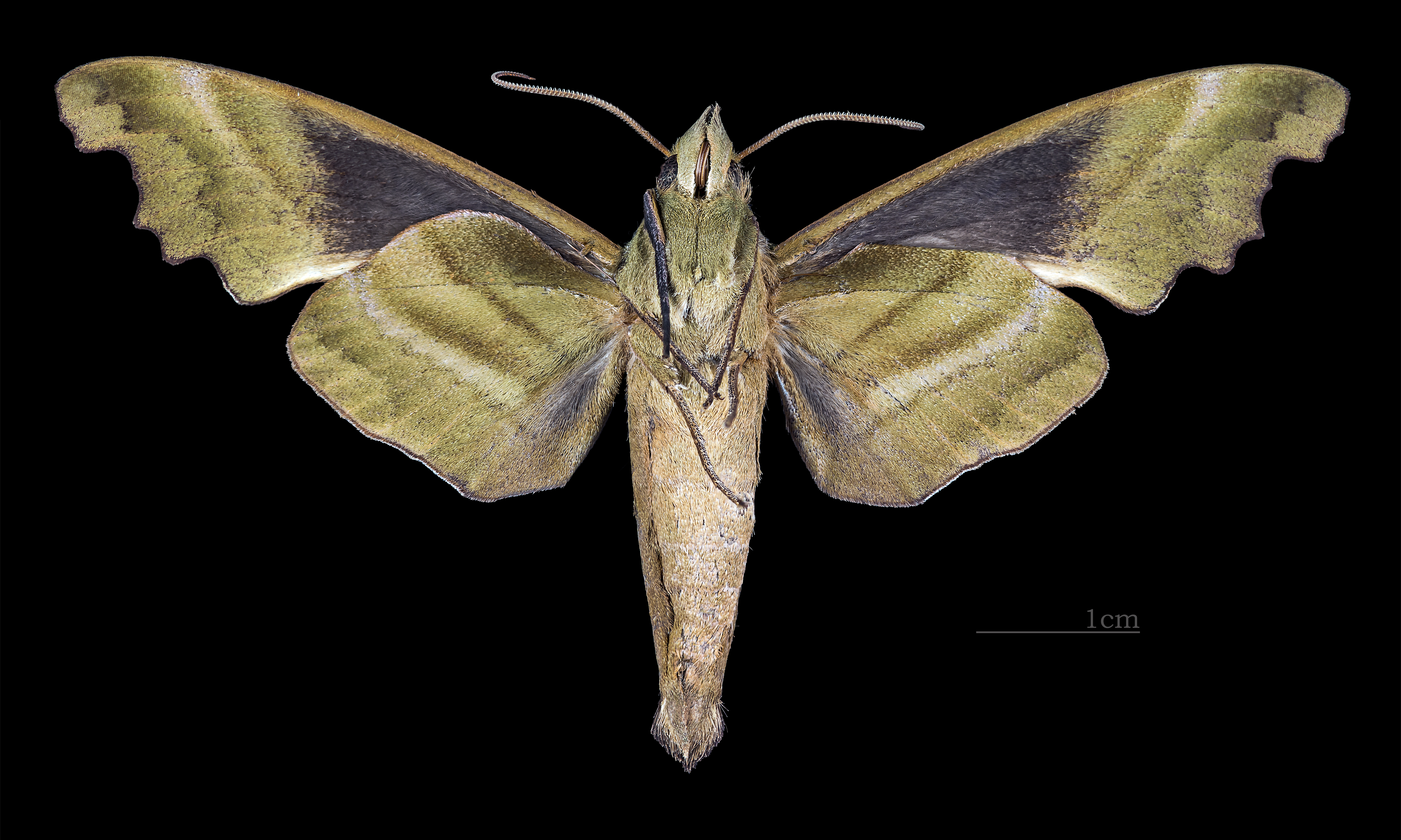 Stolidoptera tachasara - △ Ventral side △ Ventral side △ Face ventral Collection of the Mathematician Laurent Schwartz